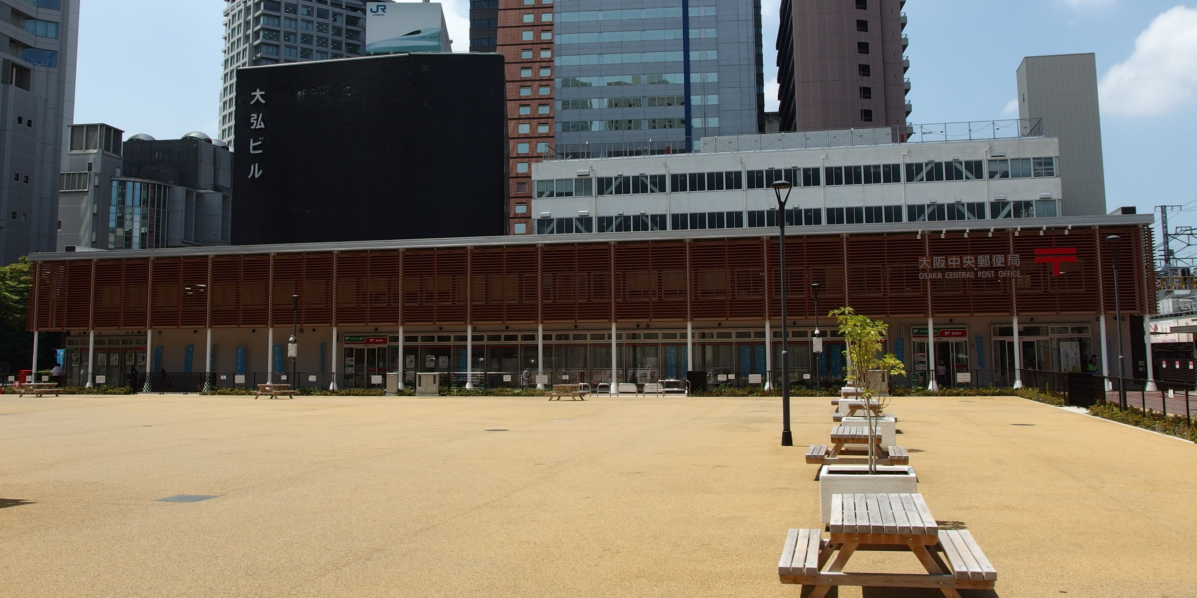 Osaka Central Post Office, Osaka, Osaka Prefecture,Japan